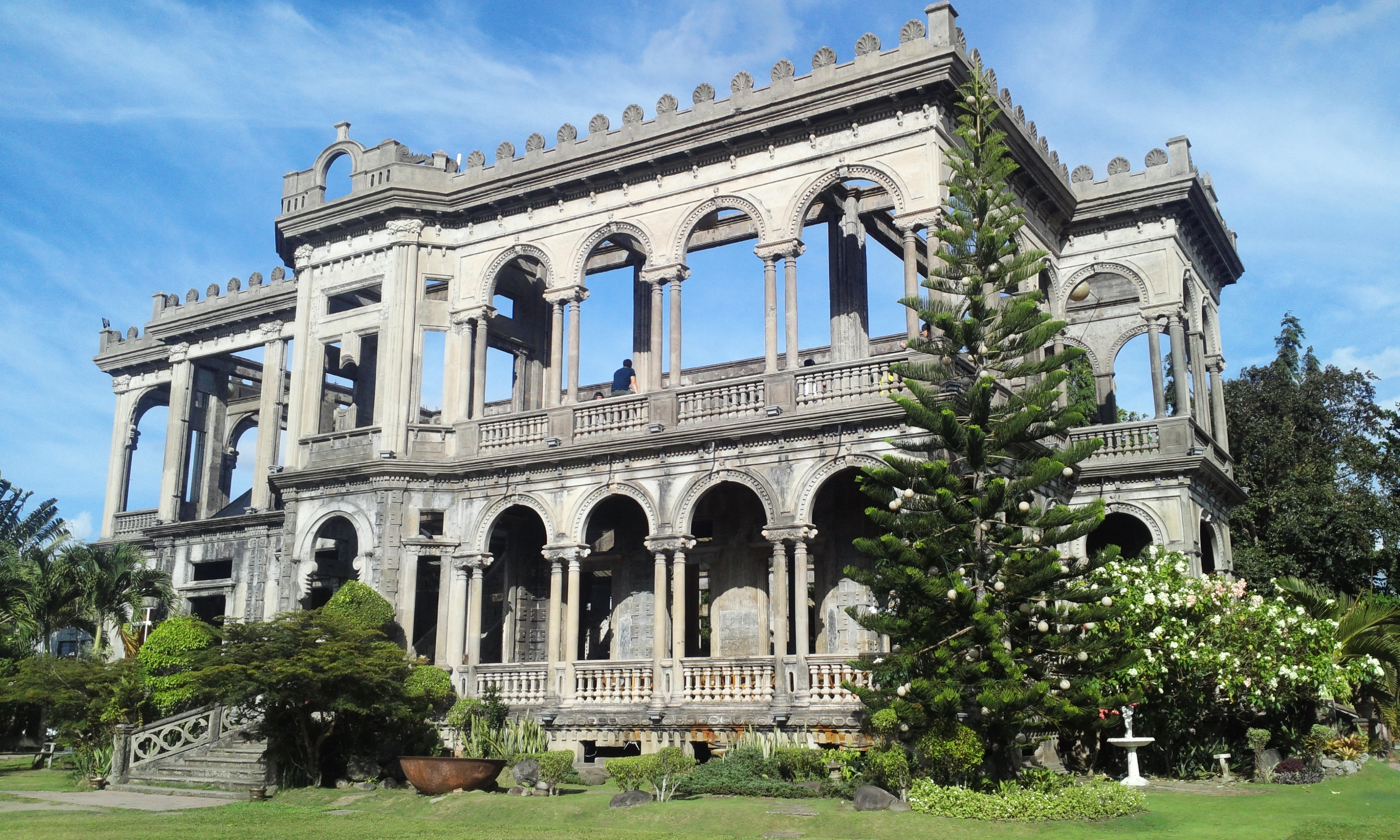 The Ruins on March 21st 2014.